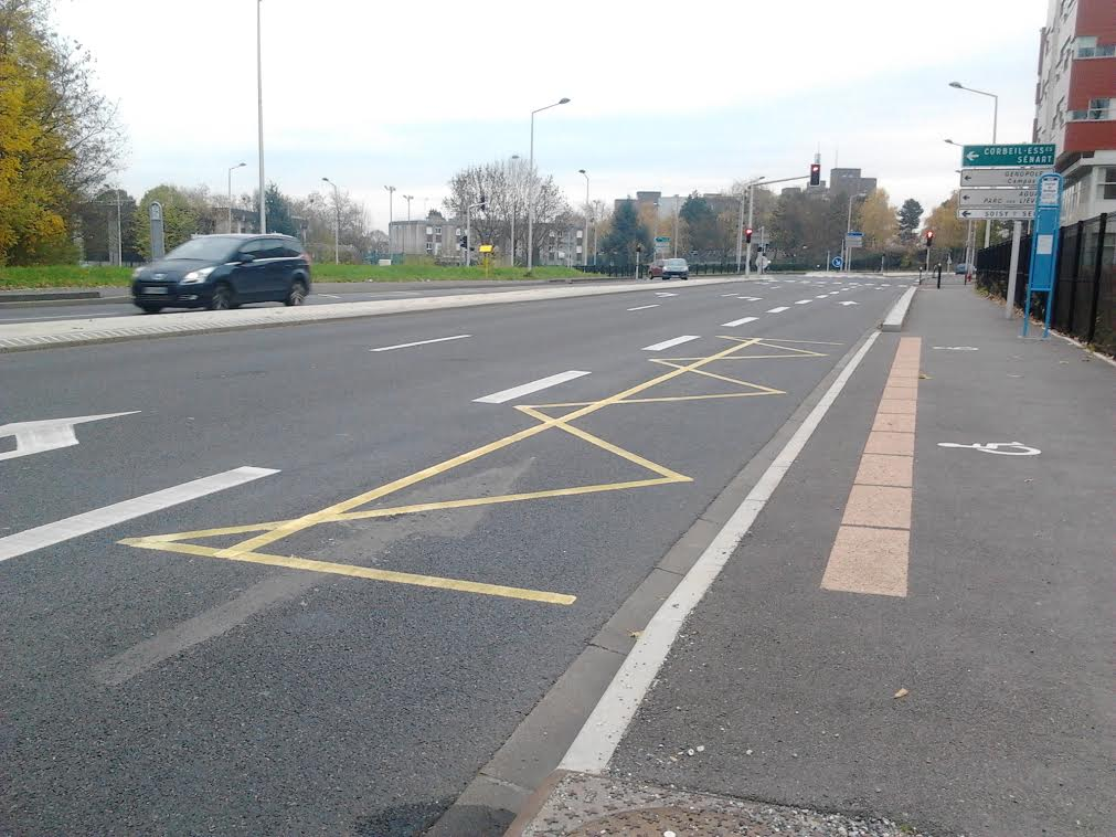 Essonne department